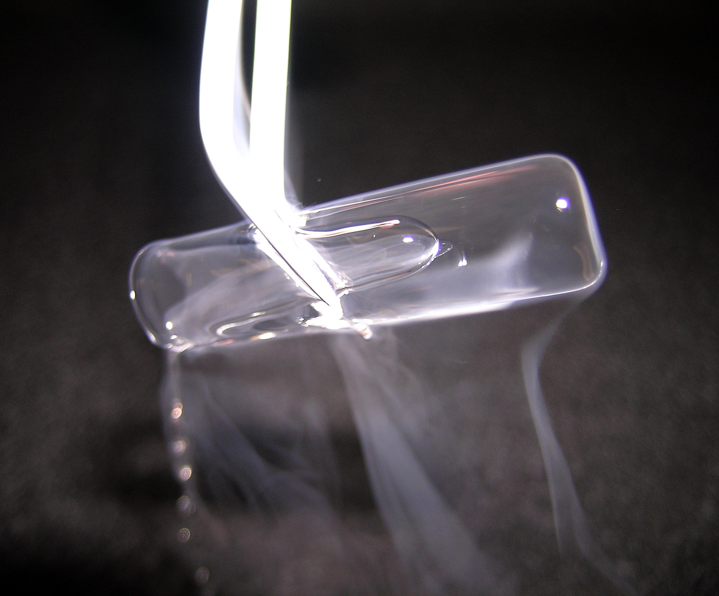 A small (~2 cm long) piece of rapidly melting argon ice (the liquid is flowing off at the bottom on the far side) which has been frozen by allowing a slow stream of the gas to flow into a small graduated cylinder which was immersed into a cup of liquid nitrogen. Auto-contrast and unsharp mask applied in photoshop. Image taken by me.